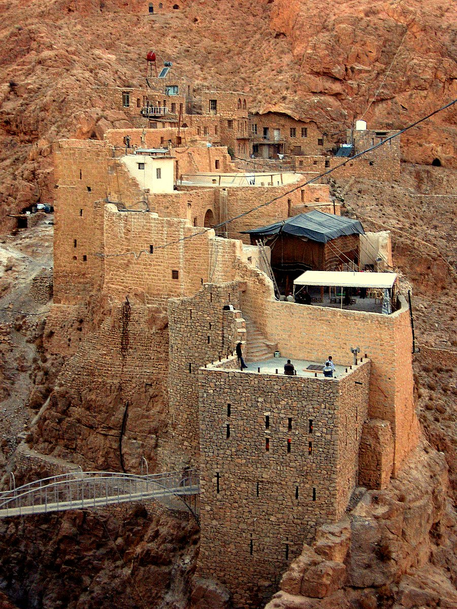 Deir Mar Musa al-Habashi. More info on the Wikipedia and on the Official site or check the Syriac Catholic Church this photo has been chosen for the cover of the book of Guyonne de Montjou, Mar Musa